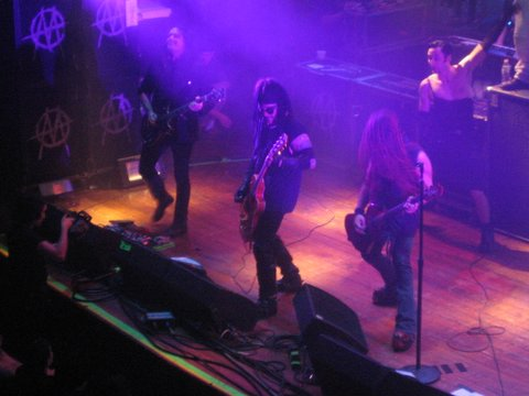 Rev-co. Not so great anymore. Not a Belgian to be found anywhere.